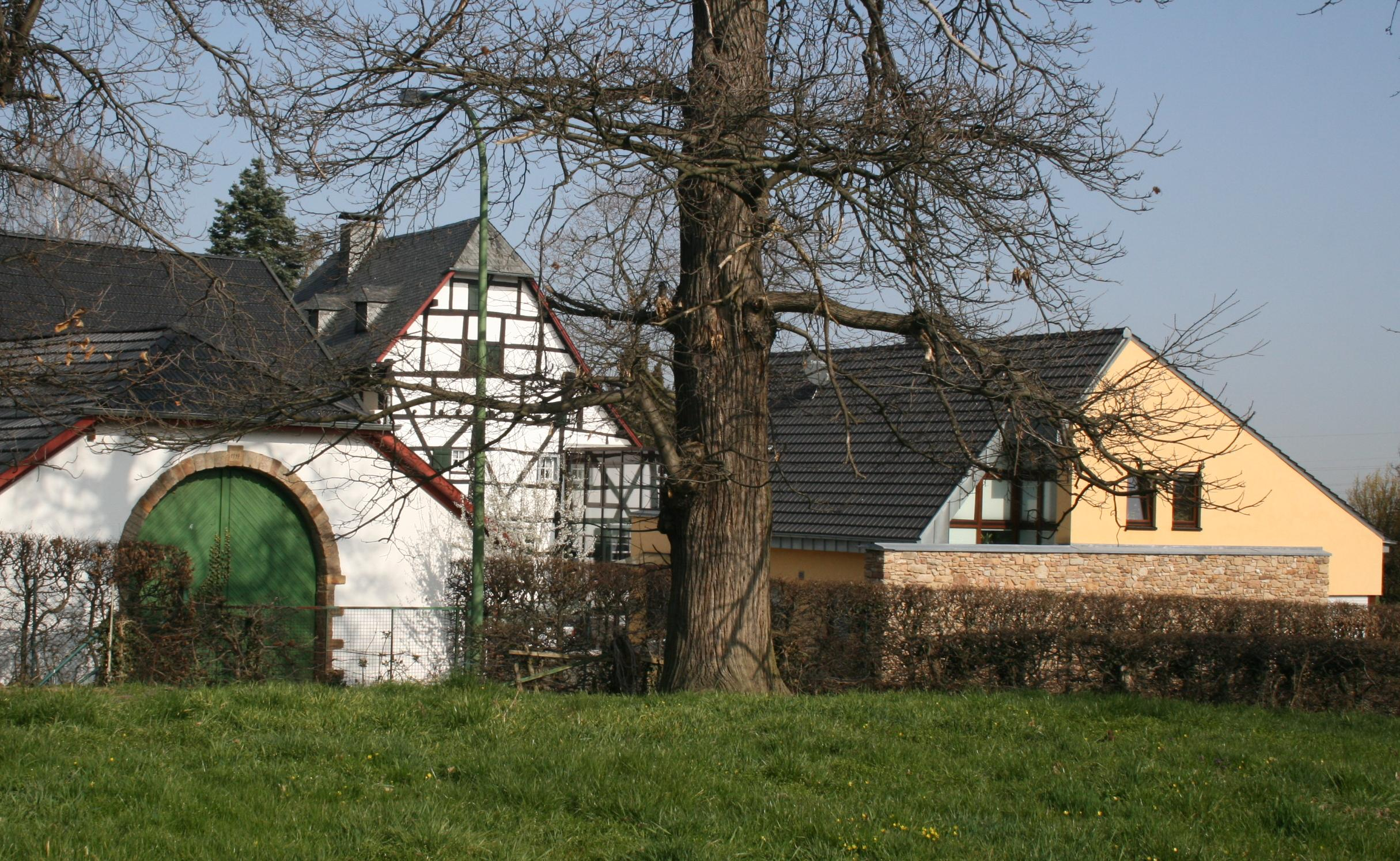 Cultural heritage monument No. 3/017 in Düren